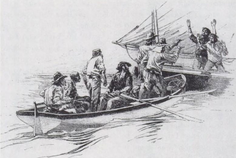 A party of Confederate fugitives, including Confederate Secretary of War John Cabell Breckinridge, hijacks a sloop en route to Cuba